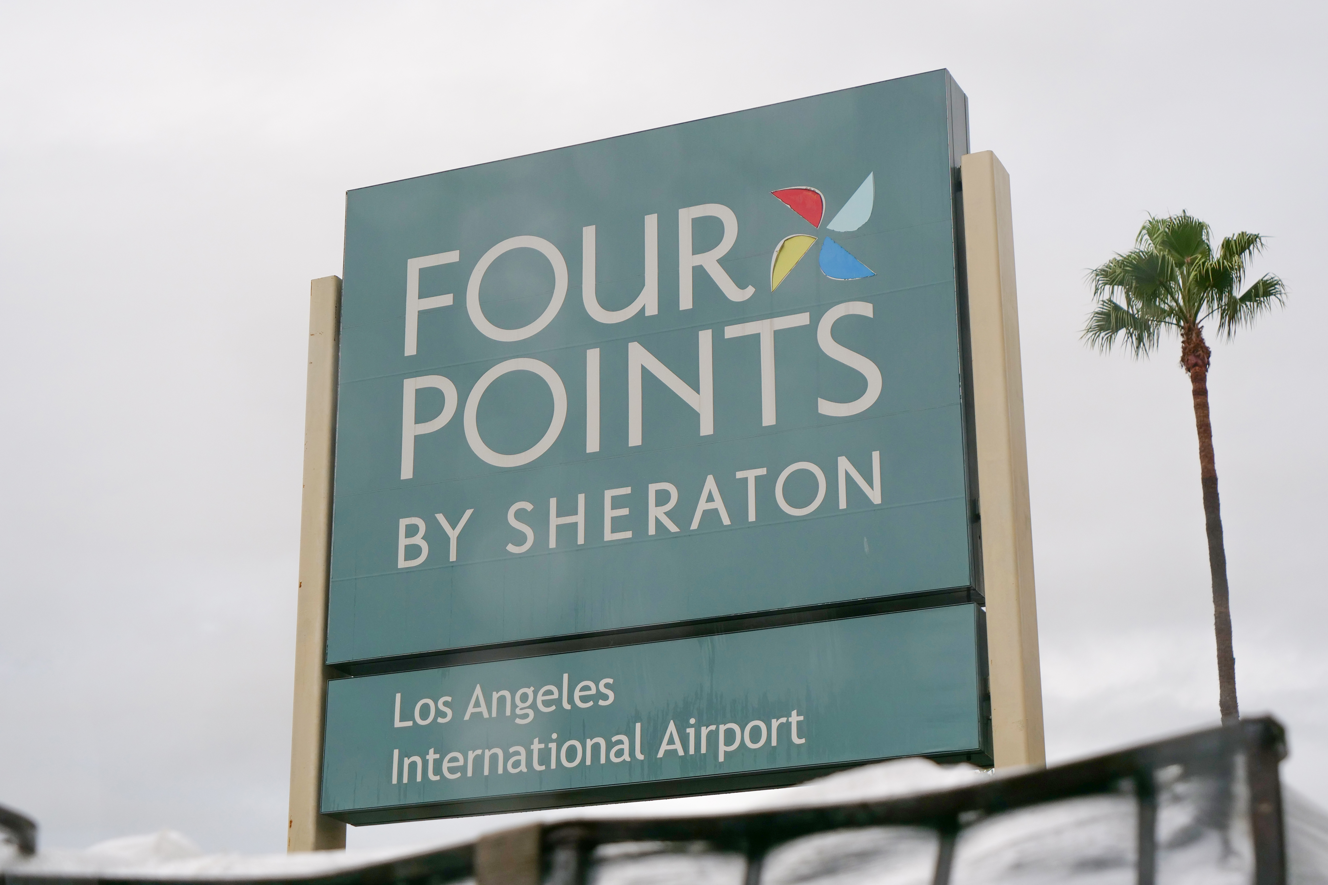 A Four Points sign near Los Angeles International Airport.